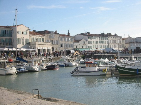 Quays at St Martin en Re. Personal photograph.